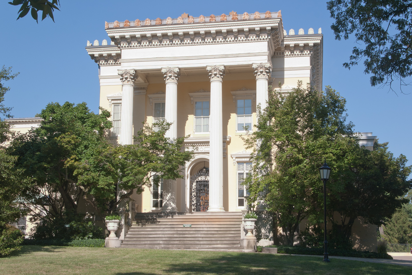 Evergreen Mansion in Baltimore, Maryland.